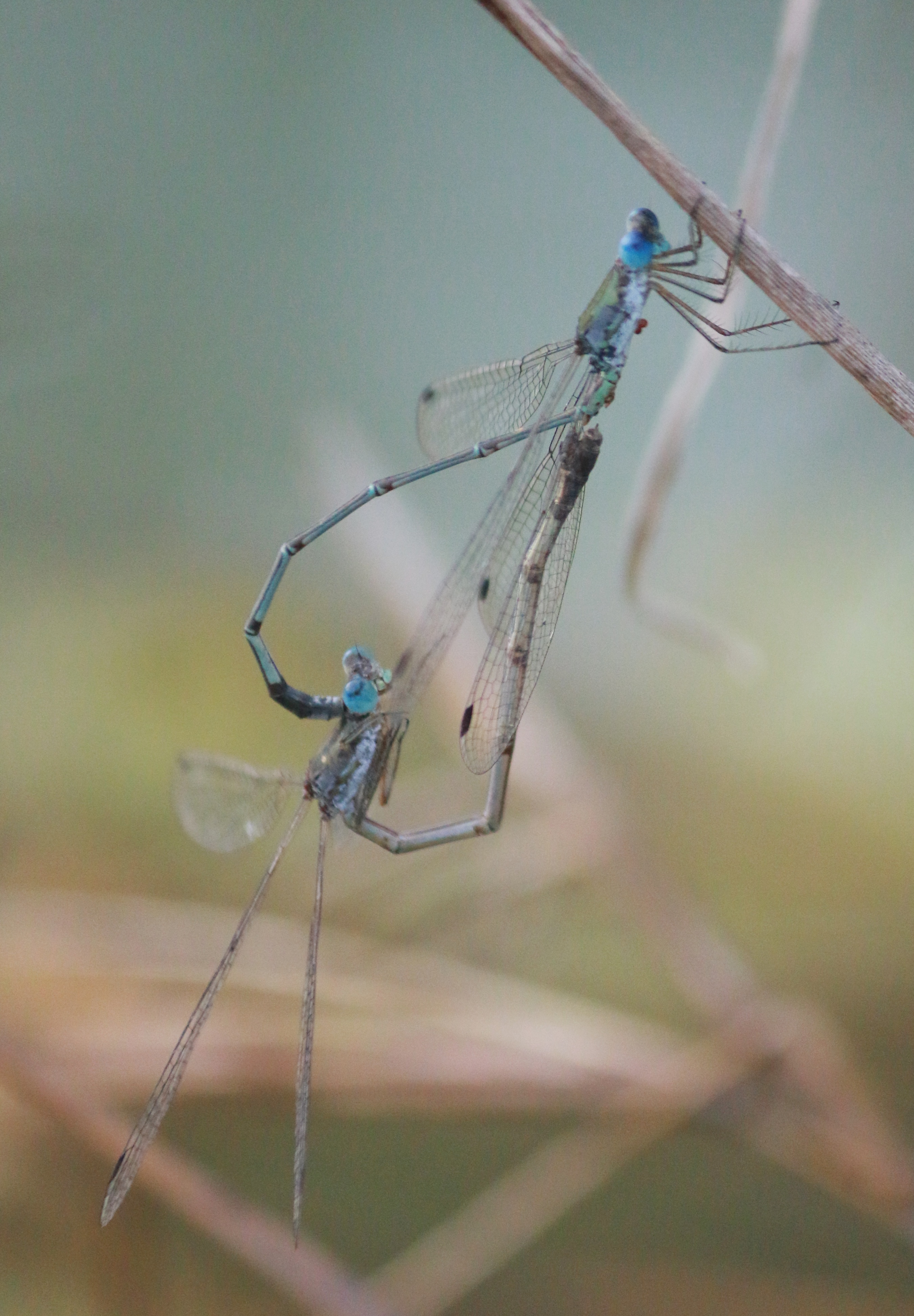 Lestes elatus male and female